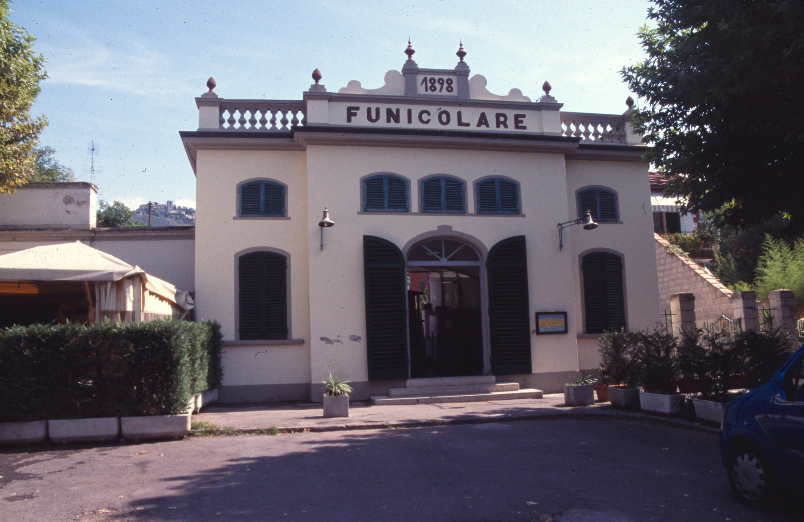 The "Terme" station of the Funicolare that goes to Montecatini Alto.